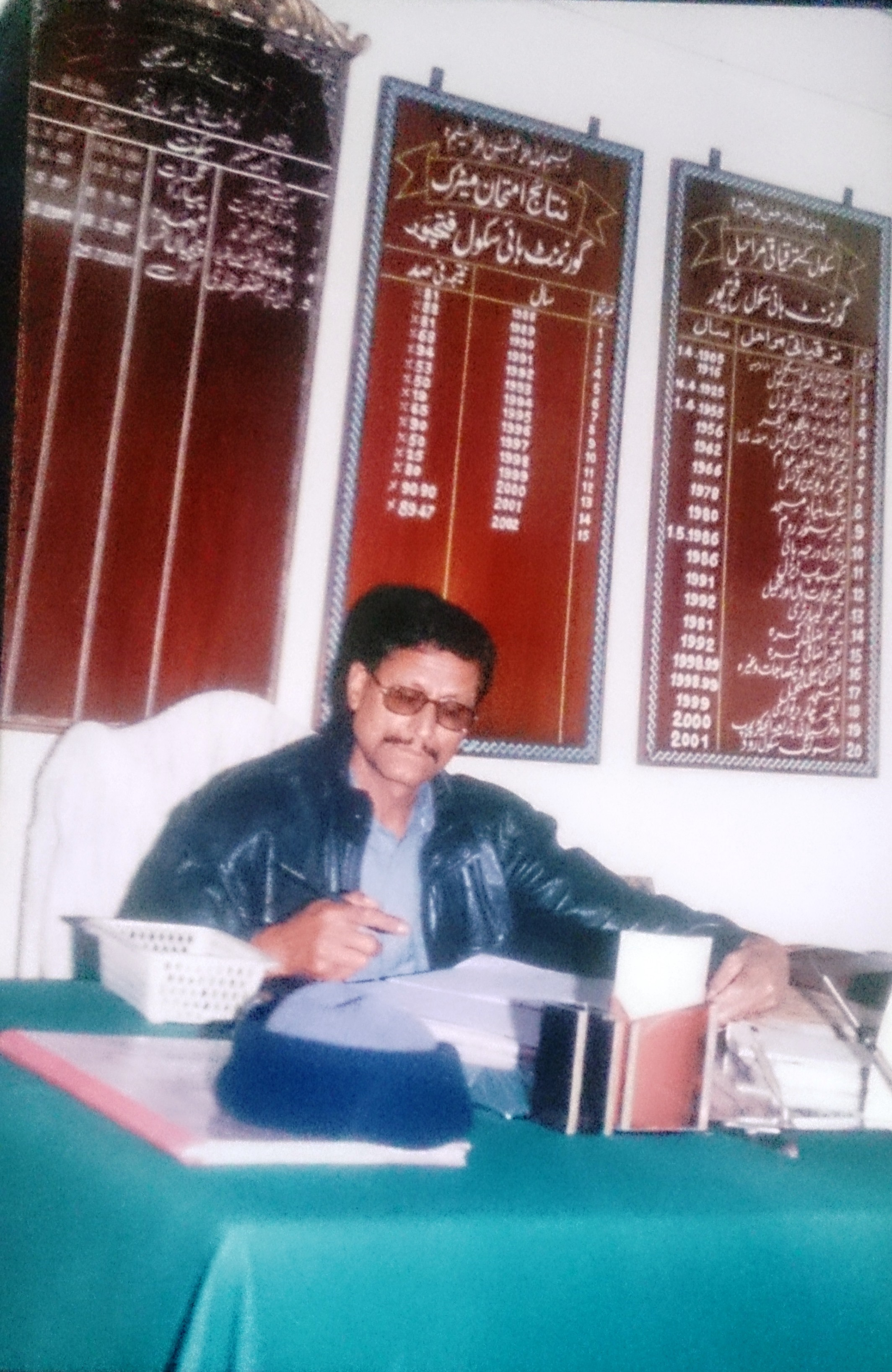 ء2006 سید محمد غضنفر بخاری فتحپور ہائی سکول